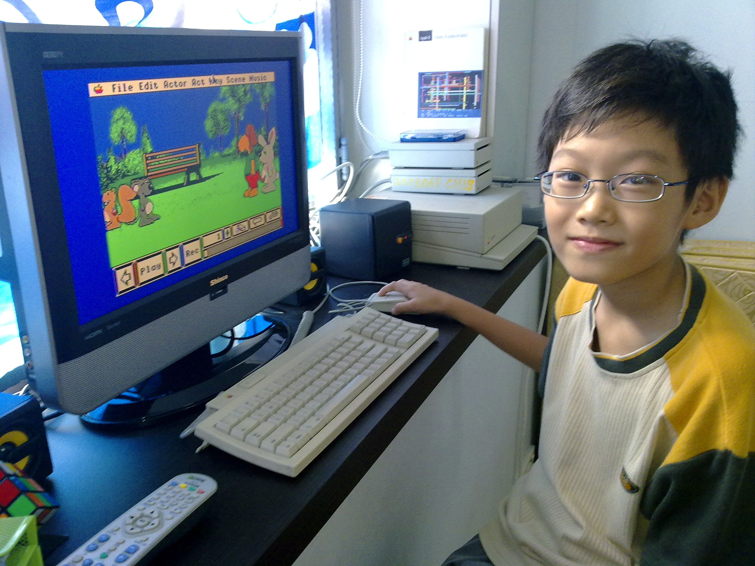 Young Singaporean computer programmer Lim Ding Wen using the program Cartooners for Apple IIGS.